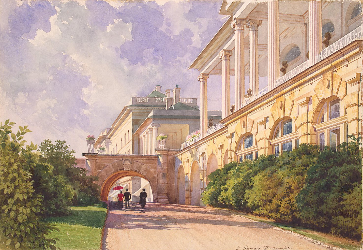 Catherine Palace, with the Cameron Gallery visible on the right and the Platon Zubov apartments in the background. The Catherine Palace, located at Tsarskoe Selo, was the summer residence of the Russian imperial family.